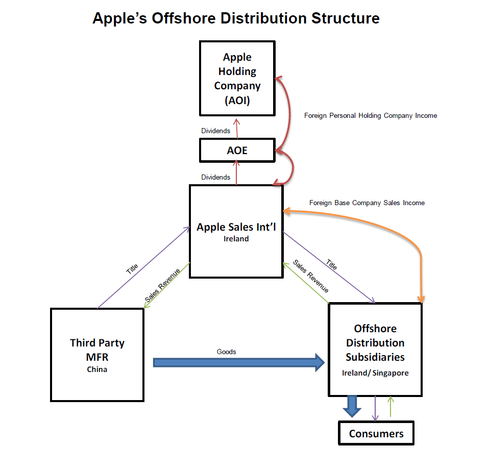 2013 US Senate Investigation into Apple's offshore tax structure in Ireland, Apple Sales International